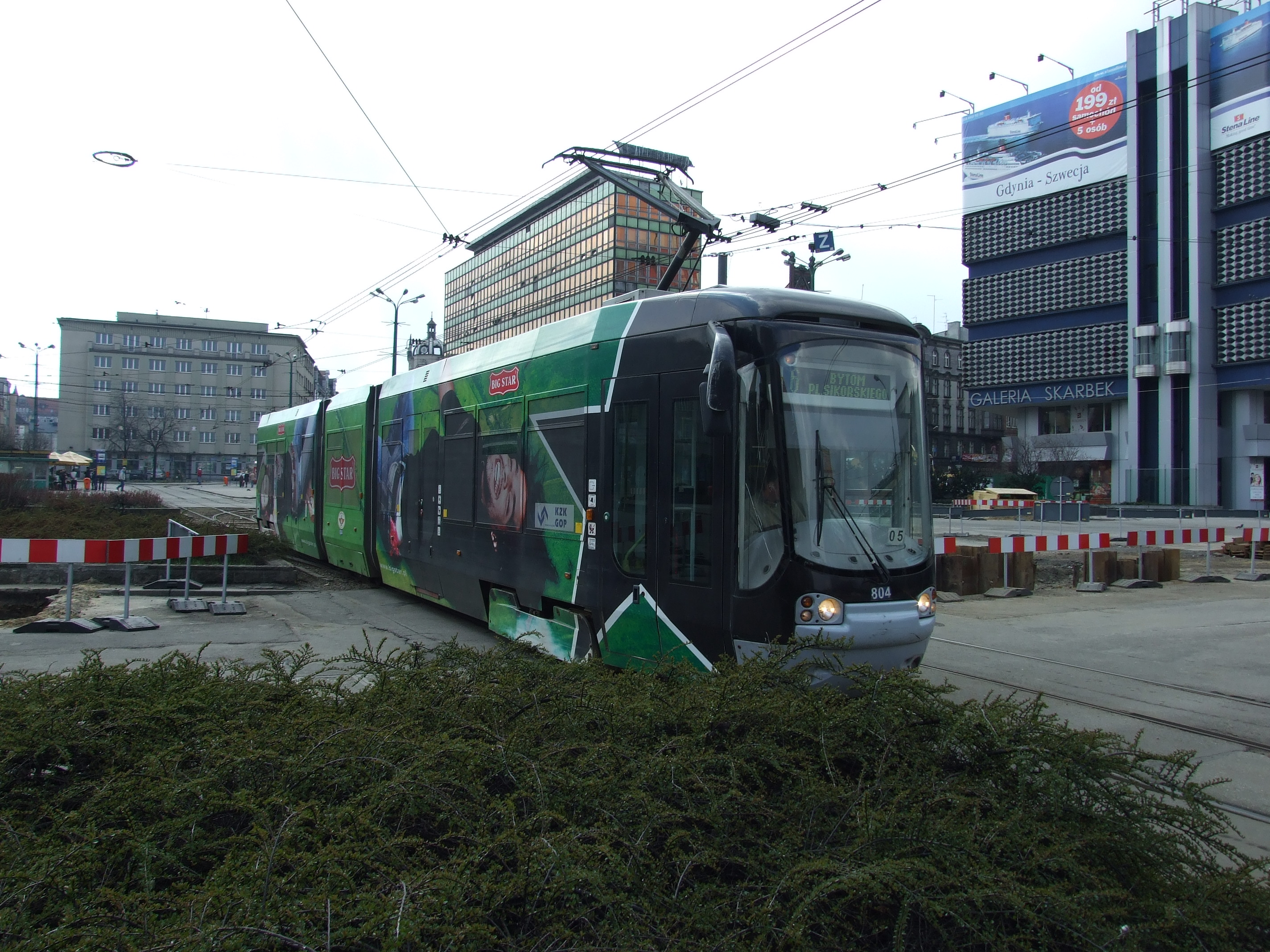 Public transport in Katowice, Poland